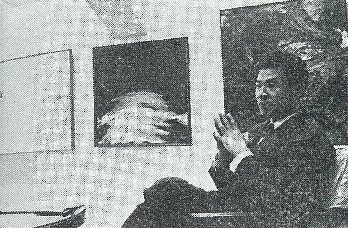 Takashi Yamamoto is a Japanese gallery owner. He managed “Tokyo Garo”(Tokyo Gallery) in Ginza, Tokyo, Japan.